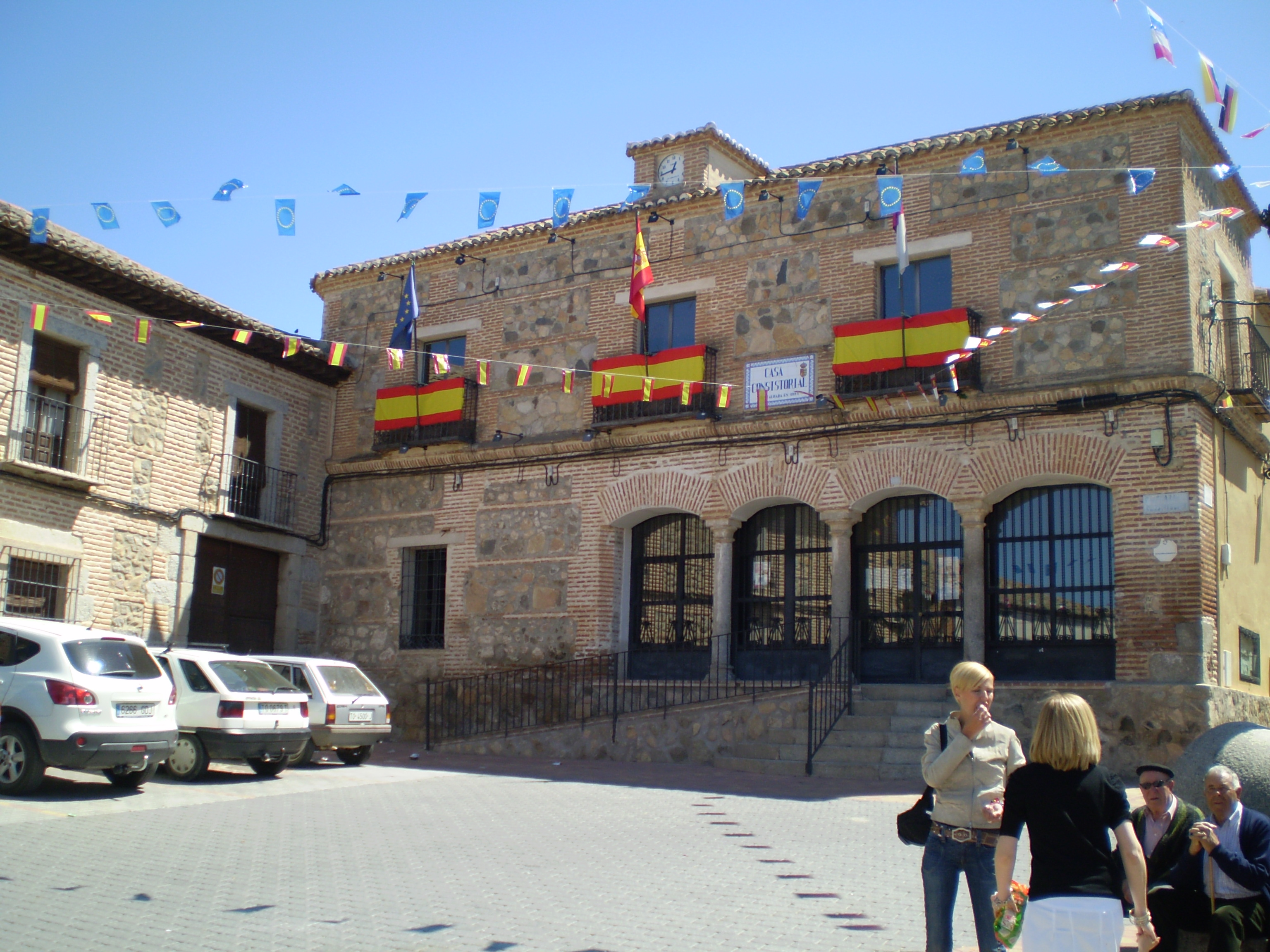 City Hall of San Martin de Pusa